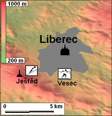 Location of 2009 Nordic World Ski Championships venues within city of Liberec.